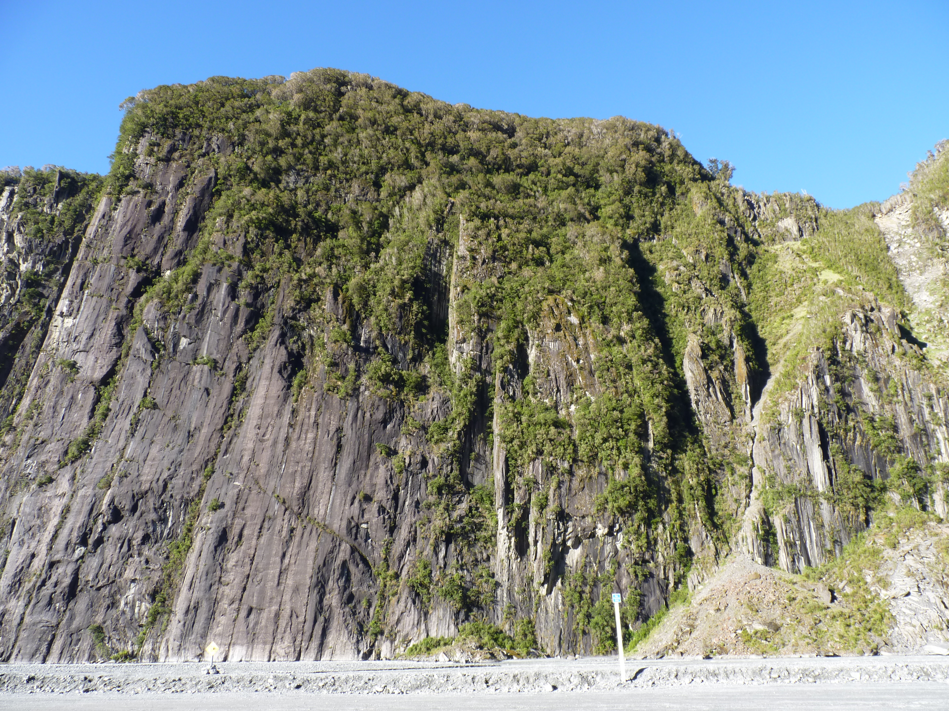 Valley to Fox Glacier, West Coast Region, New Zealand